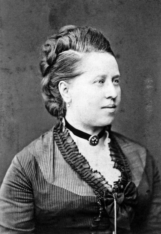 Photo